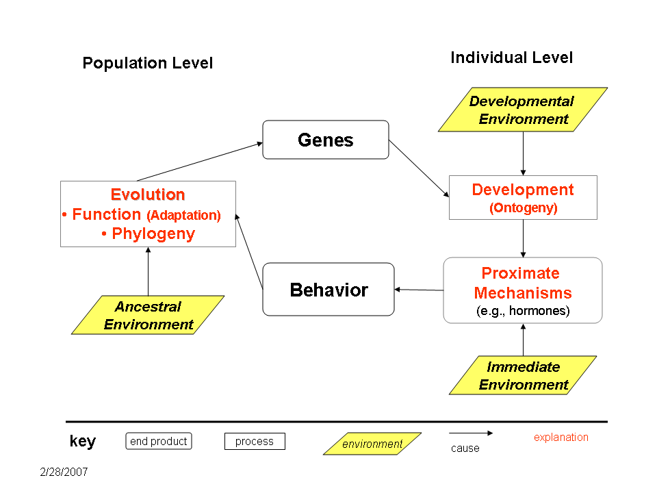 Explanations of Animal Behaviour: Causal Relationships; Adopted from Tinbergen (1963) W. Pete Welch, self-created, public domain. W Pete Welch| 13:16, 14 January 2007 (UTC)W Pete Welch W. Pete Welch, self-created, public domain. W Pete Welch 13:16, 14 January 2007 (UTC)W Pete Welch